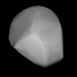 3D convex shape model of 9694 Lycomedes, computed using light curve inversion techniques. J. Hanuš, J. Ďurech, M. Brož, B. D. Warner (June 2011). "A study of asteroid pole-latitude distribution based on an extended set of shape models derived by the lightcurve inversion method". Astronomy and Astrophysics 530: A134. ISSN 0004-6361. arXiv